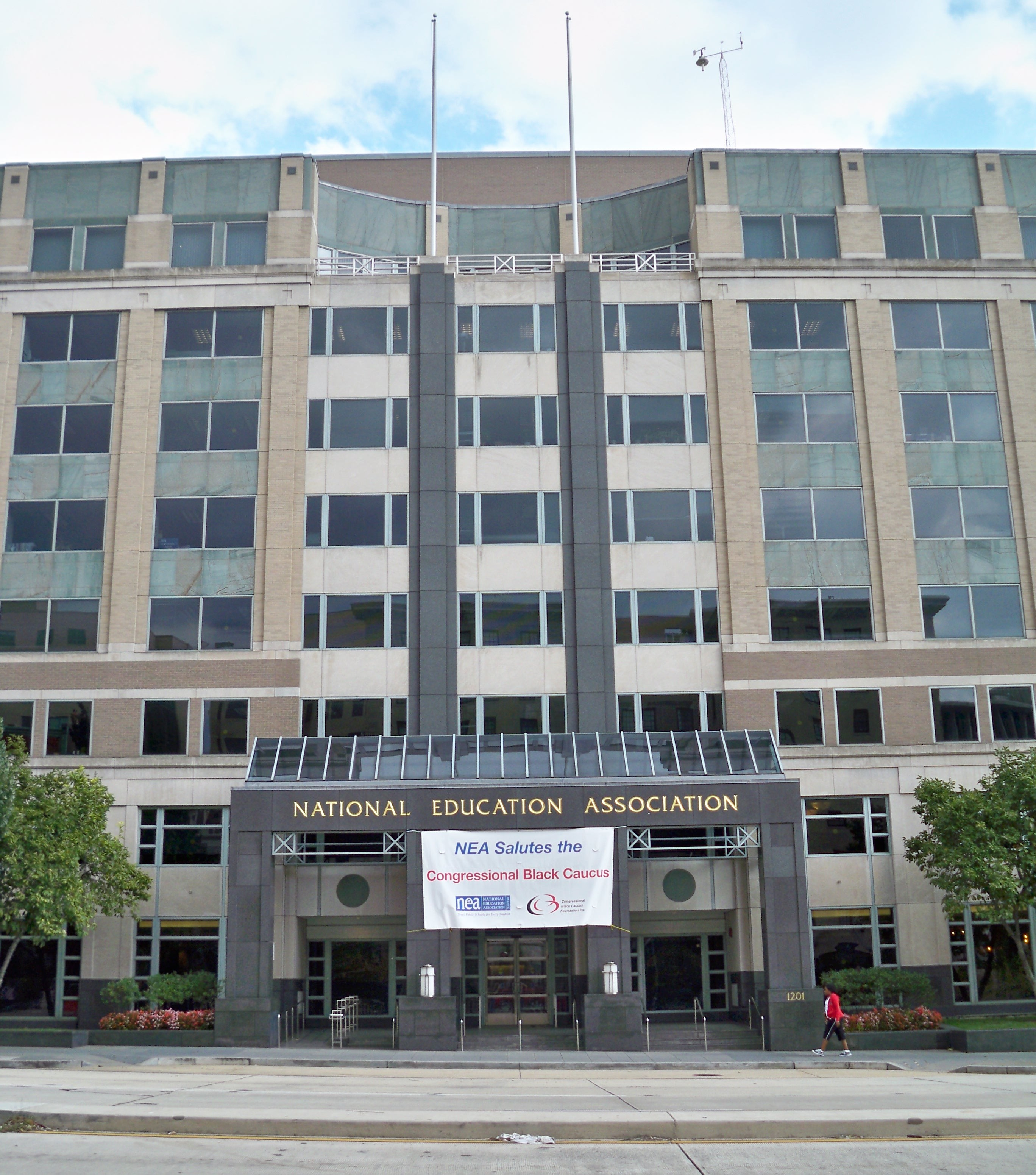 National Education Association Headquarters by the White House in Washington, DC.